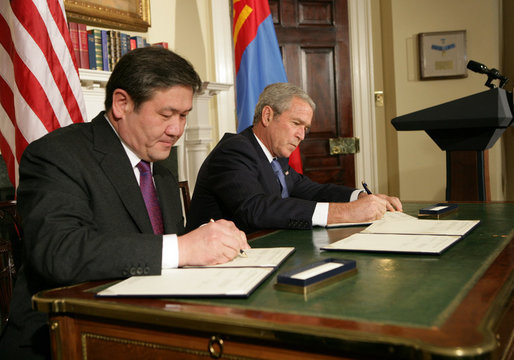 President Bush and Mongolian President Enkhbayar signing the MCA Agreement at the White House.